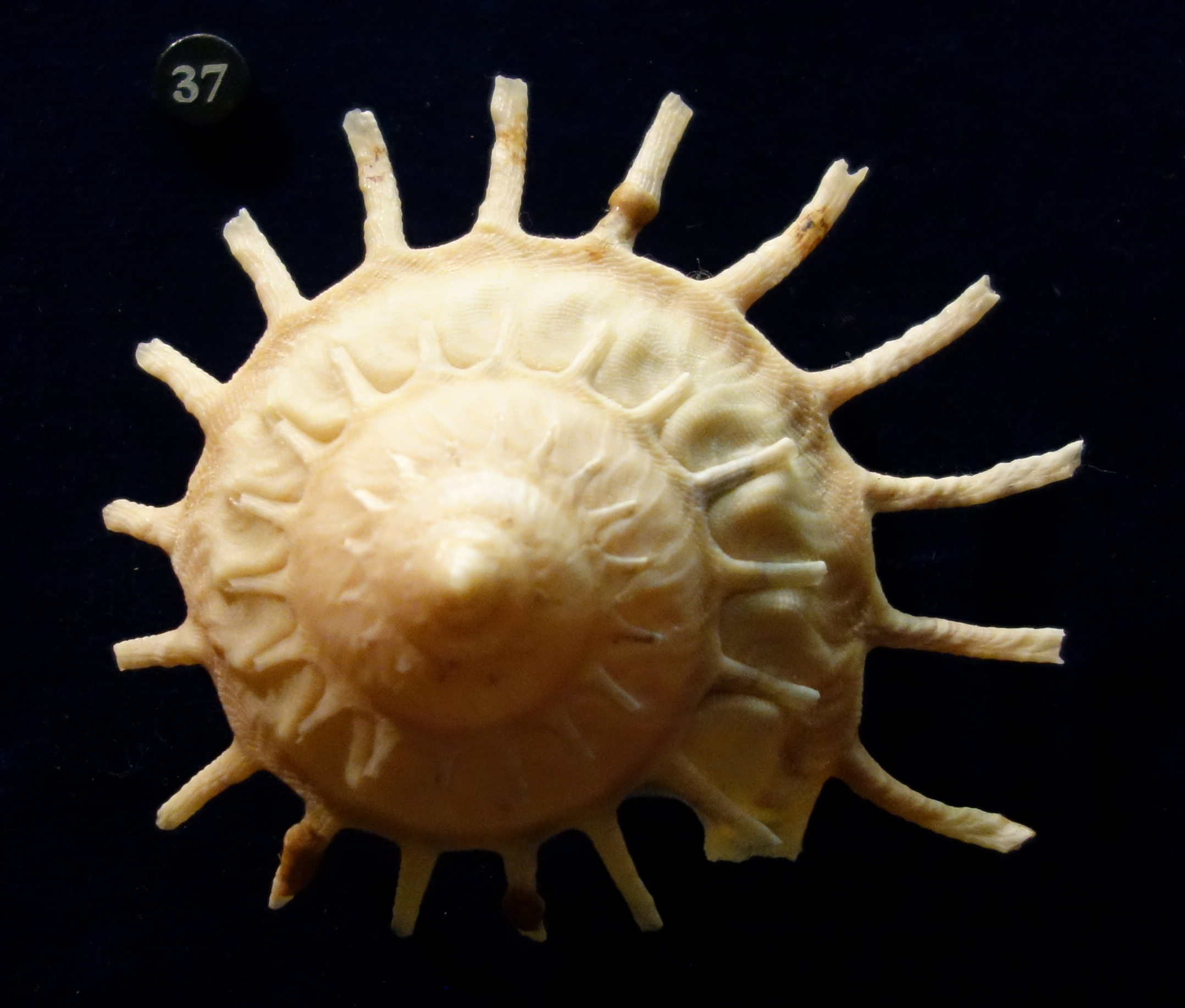 Exhibit in the Fernbank Museum of Natural History, Atlanta, Georgia, USA.